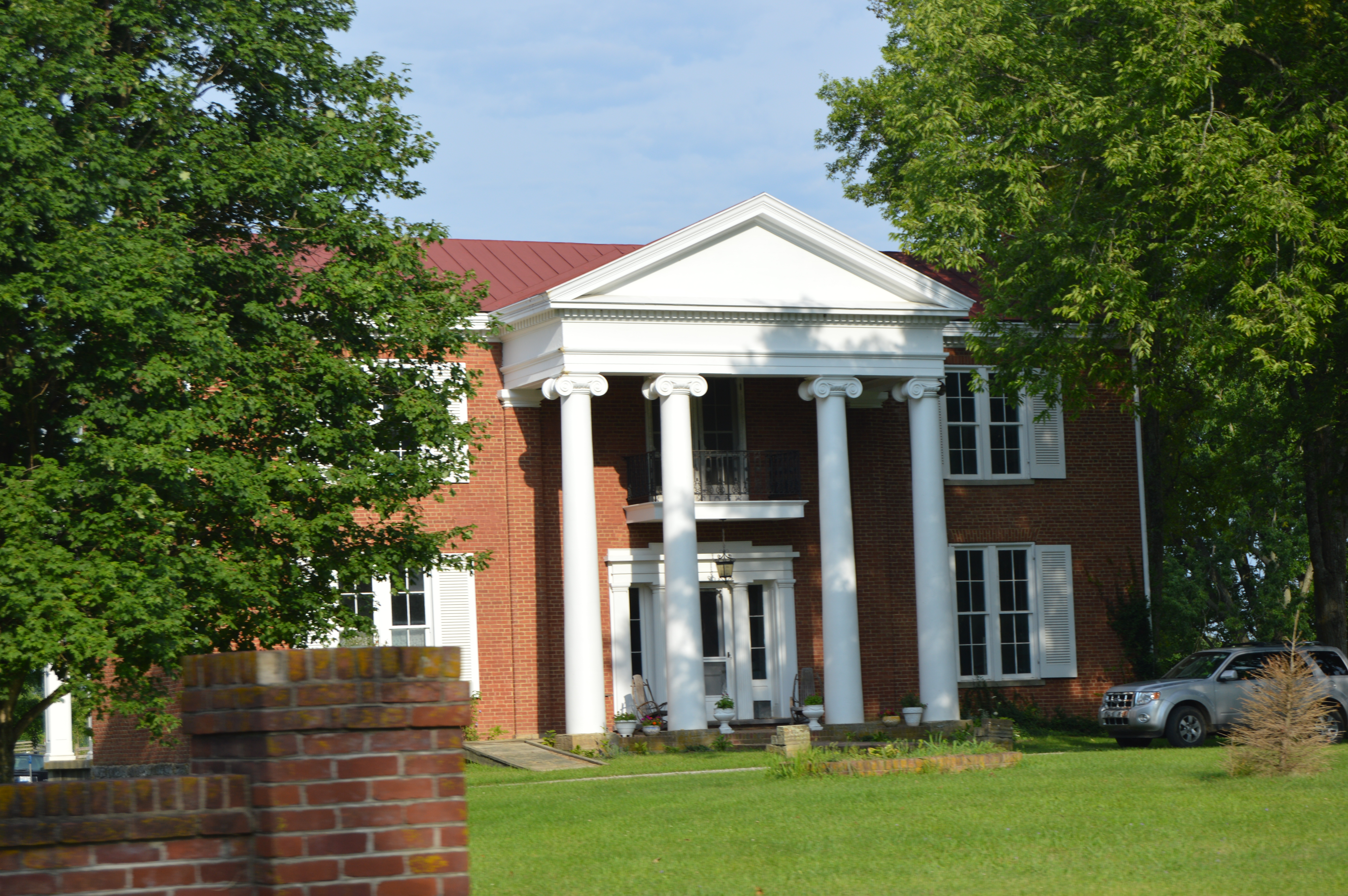 Front of Shadowlawn, the Dr. Thomas Montgomery House, located on the western side of Somerset Street on the southern edge of Stanford, Kentucky, United States. Built in 1853 for the son of U.S. Representative Thomas Montgomery, it is listed on the National Register of Historic Places.